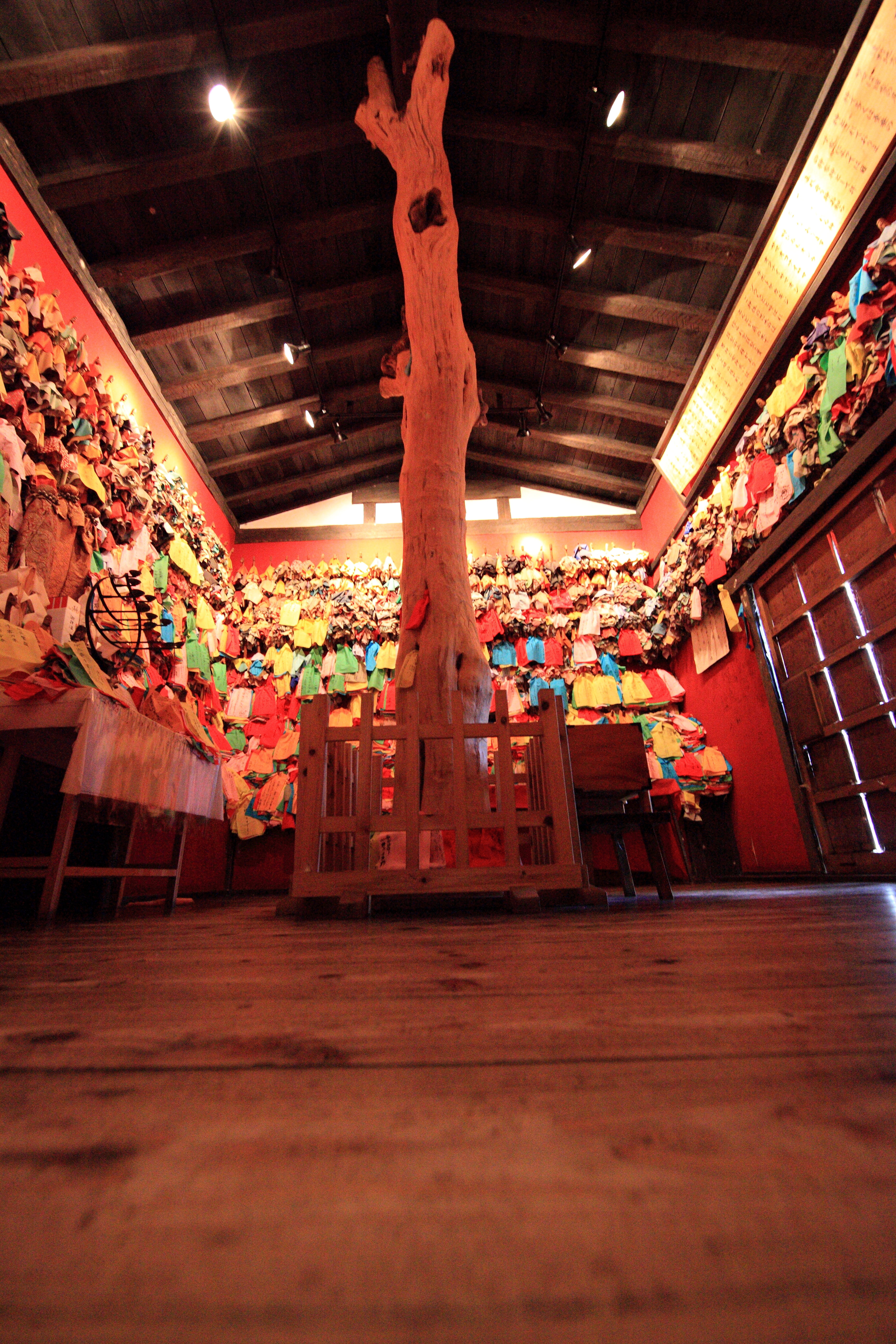 Japanese traditional style farm house / 農家(のうか) on Flickr (Denshoen, Toono-shi(city) Iwate-ken(Prefecture), Japan)